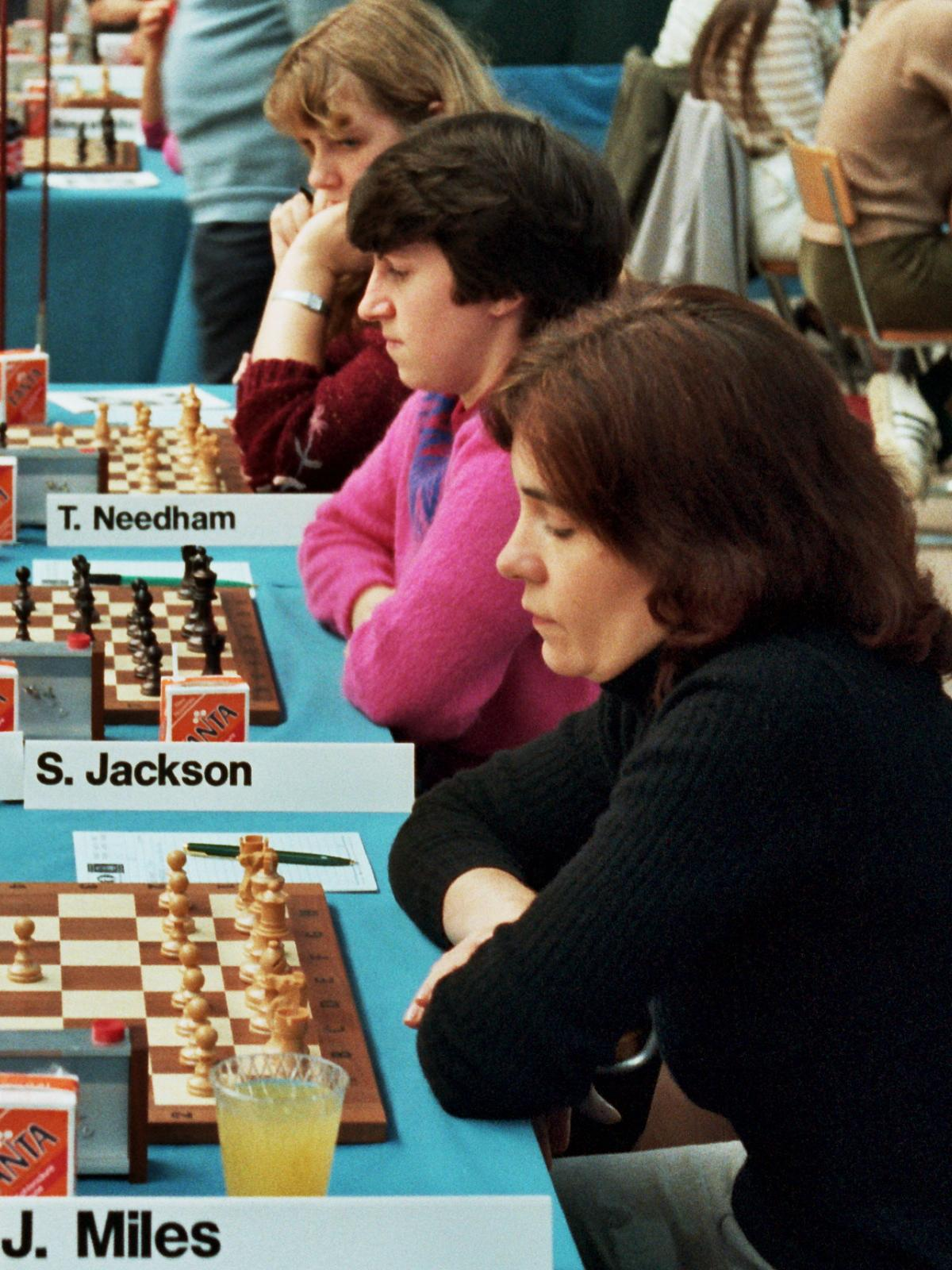 Jana Miles (Bellin) at the Chess Olympiad 1982 in Lucerne, Photographer Gerhard Hund.